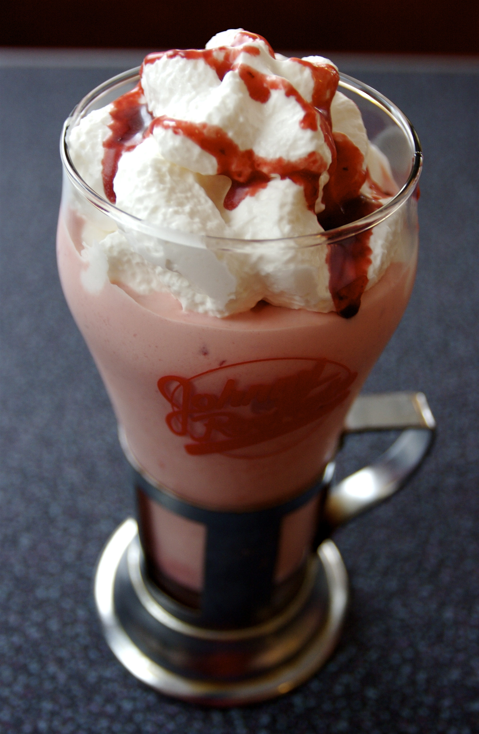 Strawberry milkshake